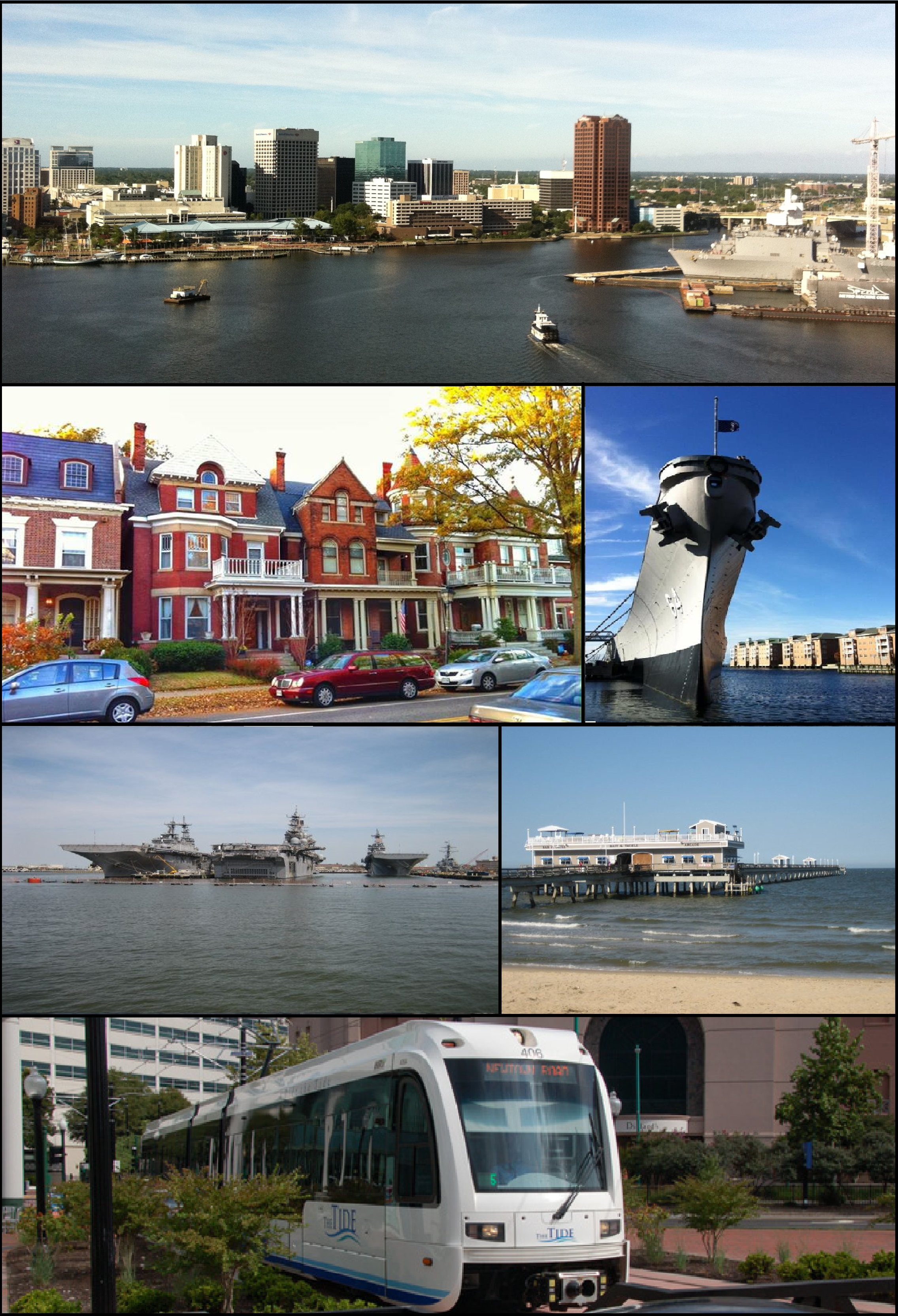 Montage of images from Norfolk, Virginia, USA